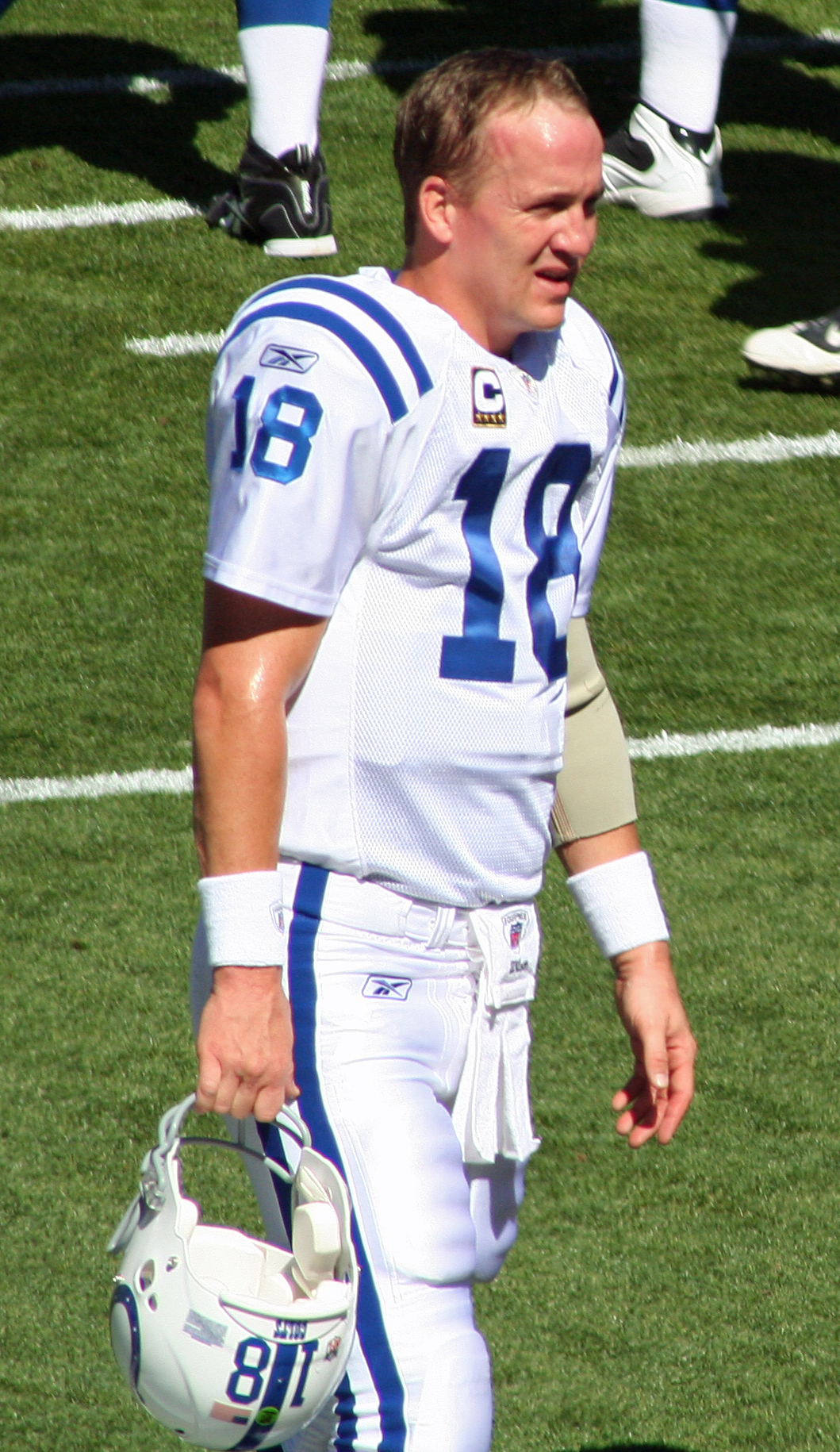 Peyton Manning before his game against the Broncos. September 26,2010